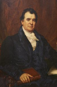 portrait by Samuel Waldo and William Jewett, 1831. NYBG, LuEsther T. Mertz Library, Art and Illustration Collection.